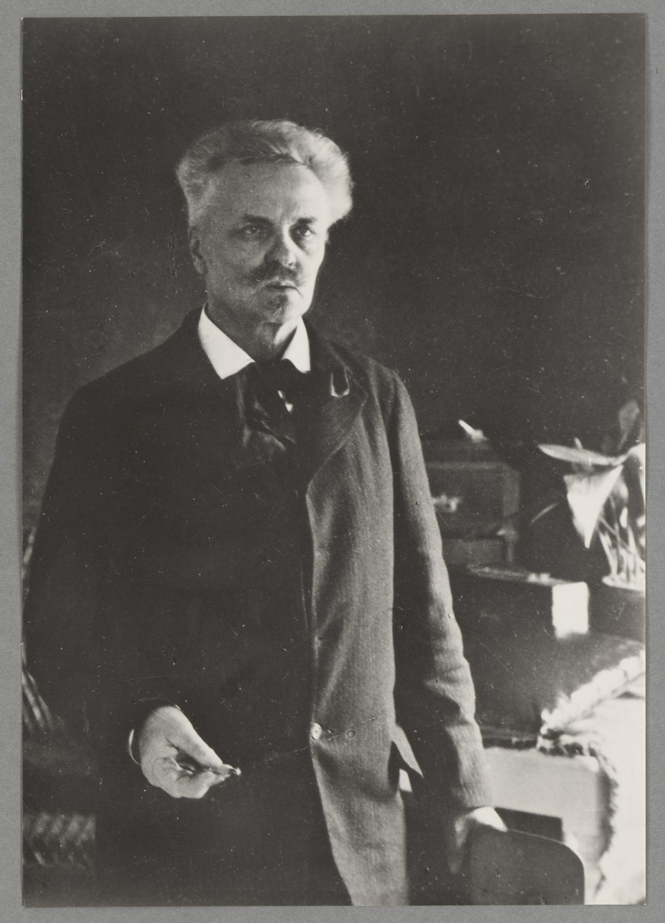 Swedish author August Strindberg in his flat at Drottninggatan 85 in Stockholm Date: October 1908 Photographer: Herman Anderson, Stockholm Part Of: National Library of Sweden, Collection of Manuscripts, Strindbergsrummet